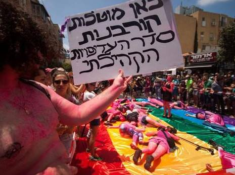 During the 2013 Tel Aviv Pride Parade, the anarcho-queer collective "Mashpritzot" held a die-in to protest Israeli pinkwashing, and the homonormative priorities of the city-sposored LGBT center.